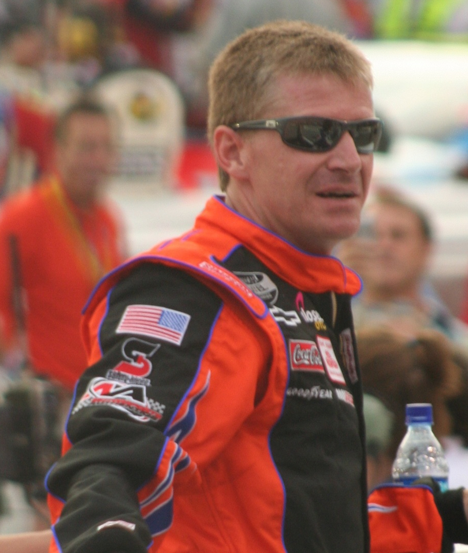 NASCAR driver Jeff Burton in August 2007 at Bristol Motor Speedway